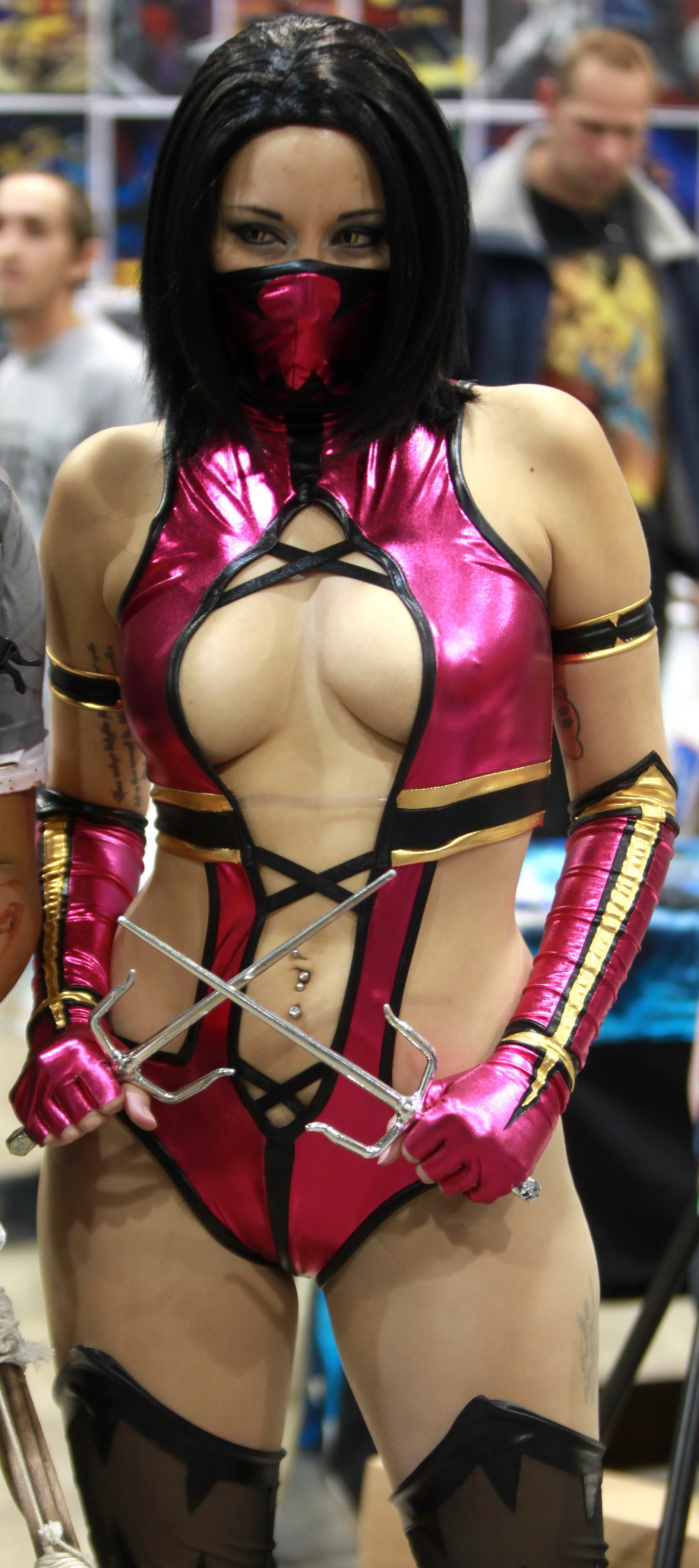 Mileena cosplayer (Rosanna Rocha) at the 2014 Amazing Arizona Comic Con at the Phoenix Convention Center in Phoenix, Arizona.